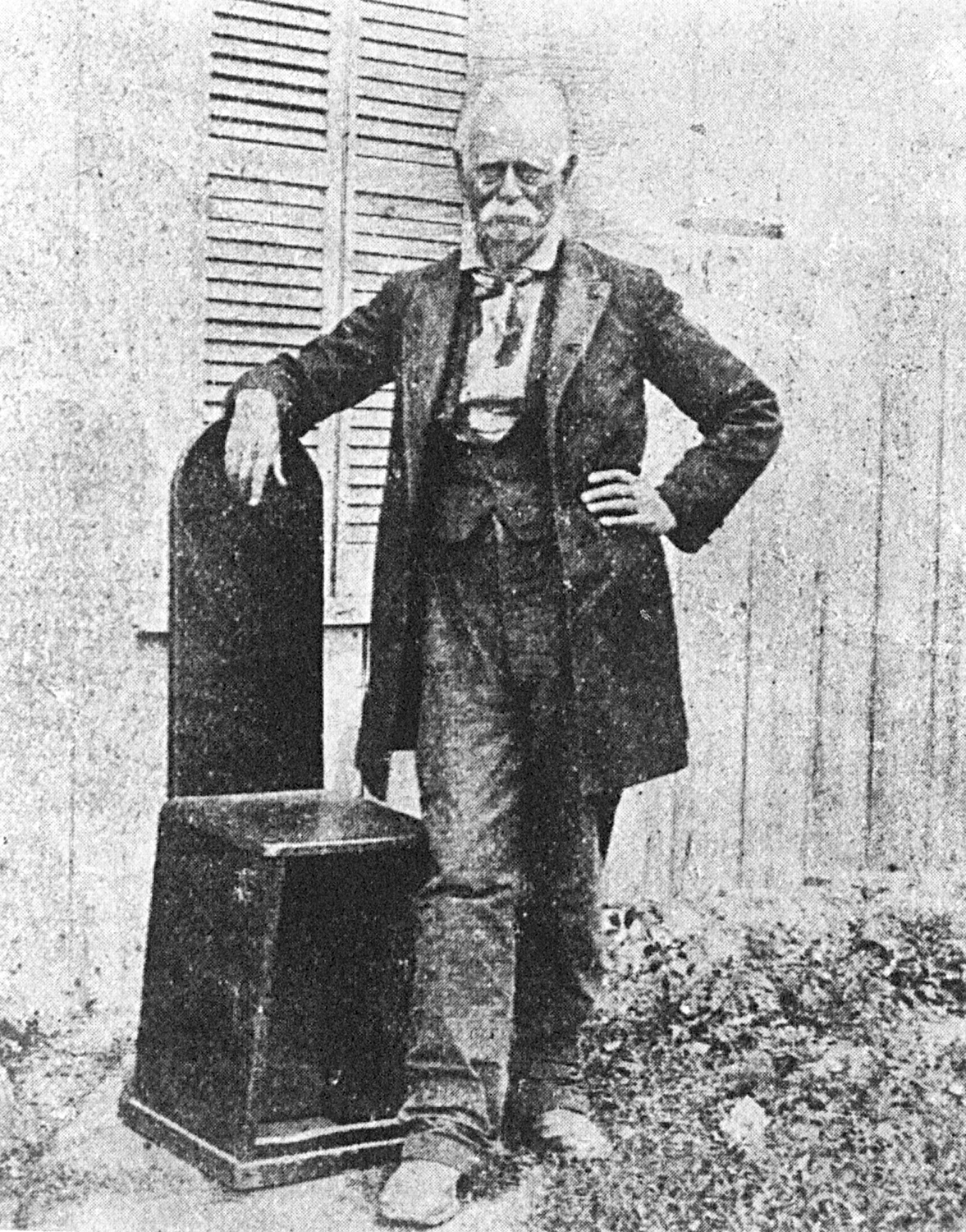 Photograph of Dan Emmett in his later years. Scanned from Way up North in Dixie: A Black Family's Claim to the Confederate Anthem by Howard L. Sacks and Judith Sacks.